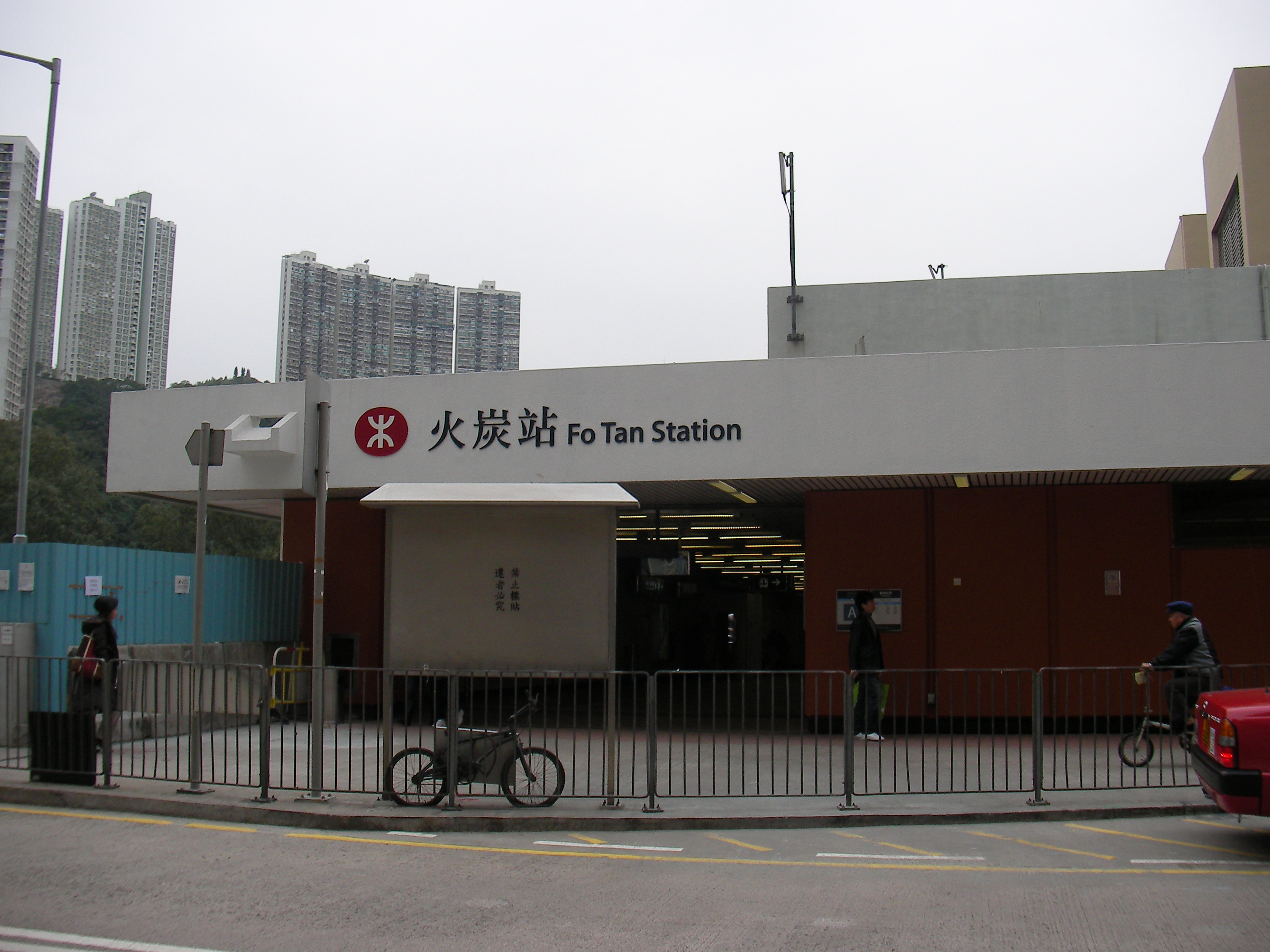 MTR Fo Tan Station Exit A